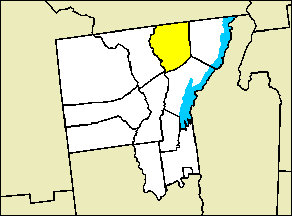 Map of Warren County, New York with town of Horicon highlighted.